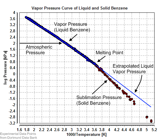 Vapor Pressure Curve of Liquid and Solid Benzene (Sublimation Pressure)